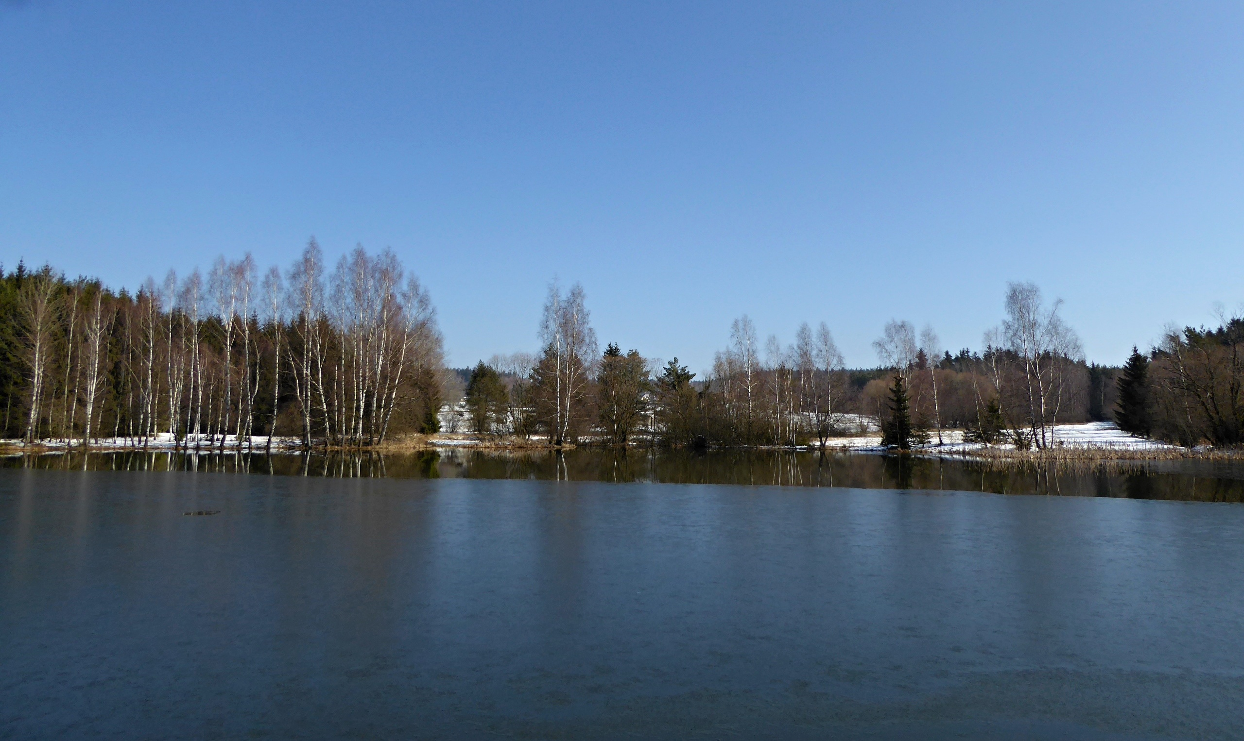 Natural Monument "Ratajské" ponds and locality of European importance in the Czech Republic. Weak ice on the surface of the pond and snow on the banks - early spring of "Kameničské" Highlands. Photo location: Czechia, Pardubice Region, Hlinsko town.